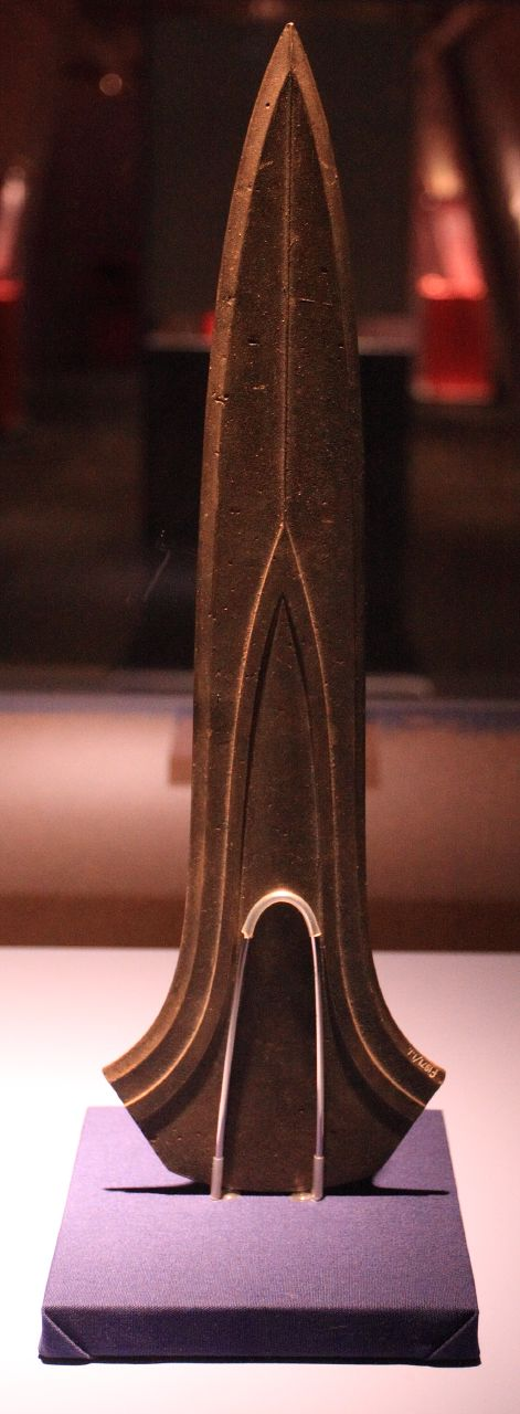 Sword of Jutphaas: Ceremonial object (not a sword} made in bronze, dated 1800-1500BC. Found in Jutphaas just south of Utrecht (Netherlands)